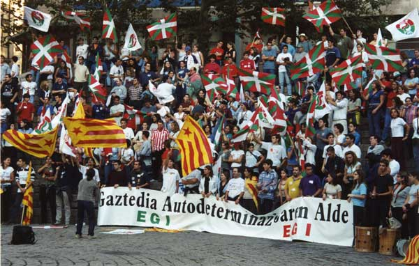 EGI members demonstration in Gasteiz